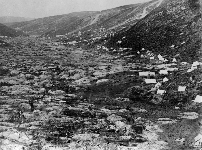 Gabriel's Gully during the Central Otago Gold Rush in New Zealand, 1862. Extended information on origin webpage reads: Gold field at Gabriels Gully, Clutha district 1862 / Reference number: 1/2-096648-F 1 b&w original negative(s). Horizontal image. Photographic Archive / Scope and contents: Gold field at Gabriels Gully, Clutha district, at the height of the gold rush, in 1862. / Photograph taken by Harry G Gore. / Other copies available: File print available in Pictorial Reference Service83. Tuapeka Co. Gabriels Gully. 1860s(PFP-003568) / Coverage dates: 1862 / Names: Gore, Harry C, fl 1862